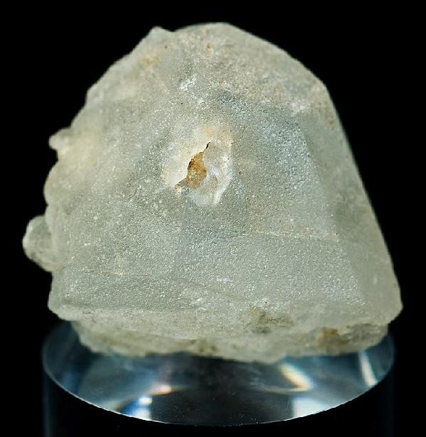 Pollucite Locality: Paprok, Nuristan Province (Nurestan; Nooristan), Afghanistan (Locality at ) Size: 2.7 x 2.4 x 1.2 cm. Pollucite is a rare zeolite group mineral. This sharp, euhedral, tabular crystal is colorless, translucent and lustrous and has frosted crystal faces. Sharp, pretty, and well-formed.